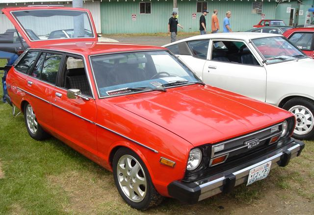 1979 Datsun 210 Wagon (Sunny California style), B310 Series